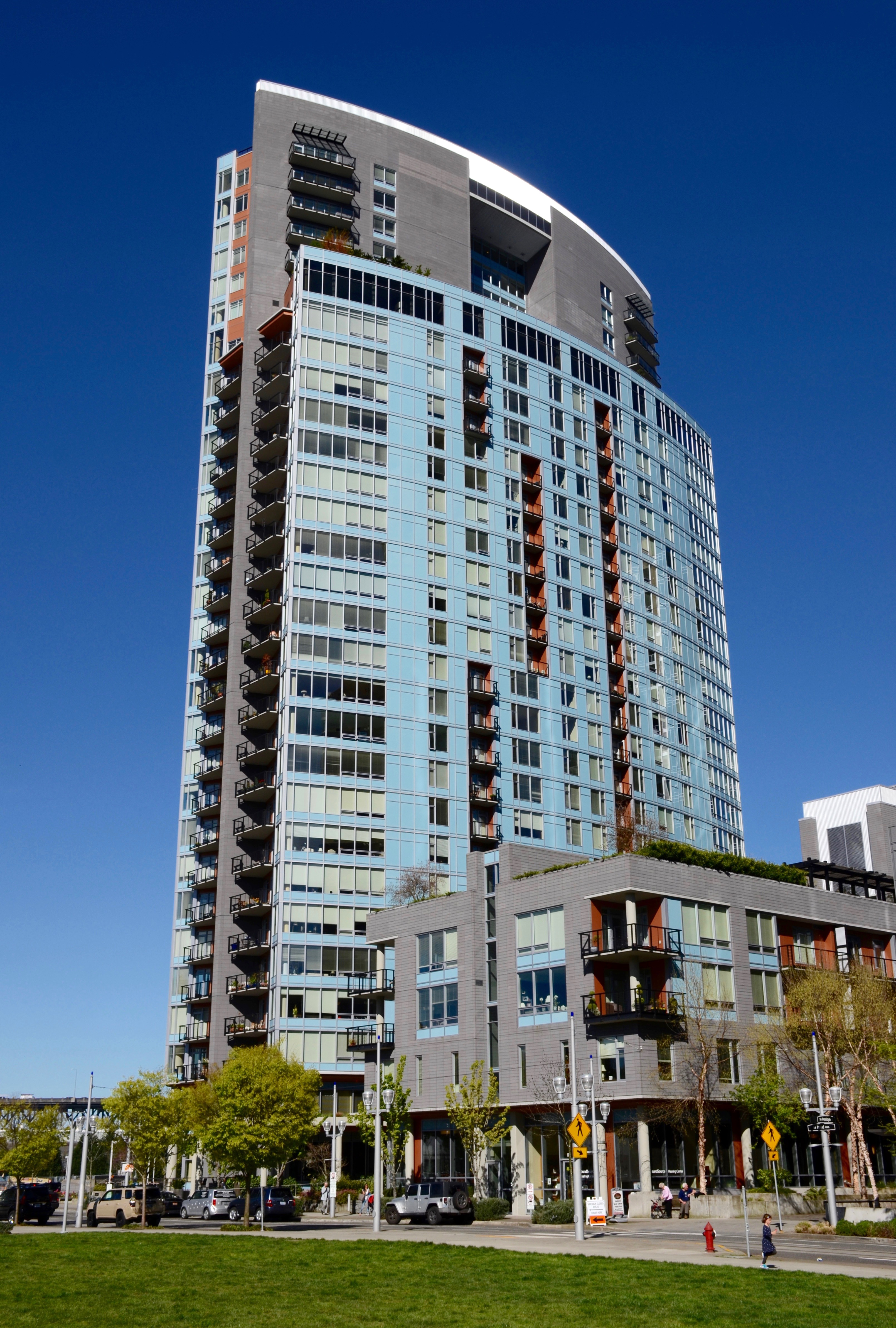 The Mirabella Portland apartment tower in Portland, Oregon's South Waterfront district, viewed from the southwest.